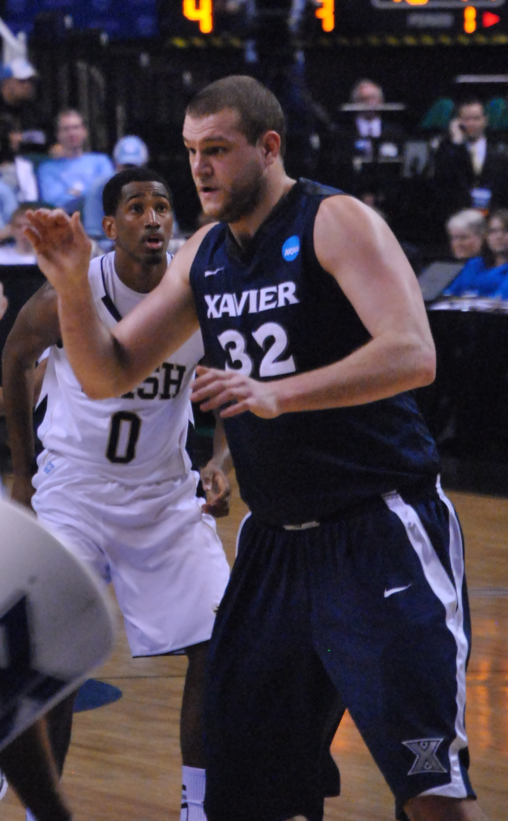 The Irish throw up a shot against the Musketeers